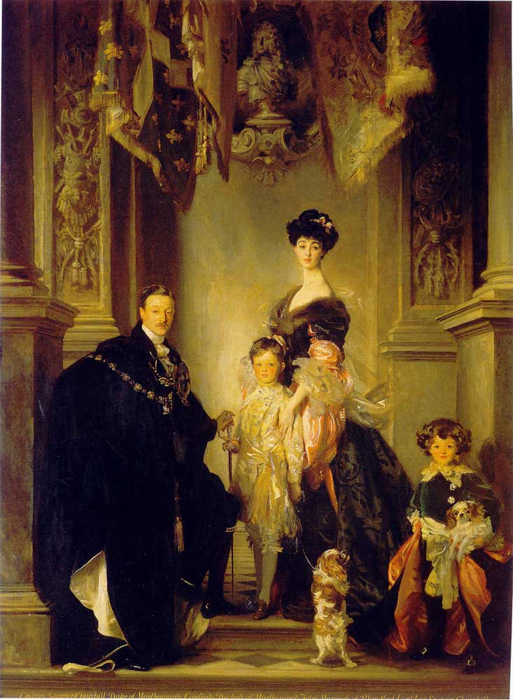 Charles, 9th Duke of Marlborough, with Consuelo, Duchess of Marlborough, and their sons John, the 10th Duke of Marlborough, and Lord Ivor Spencer-Churchill